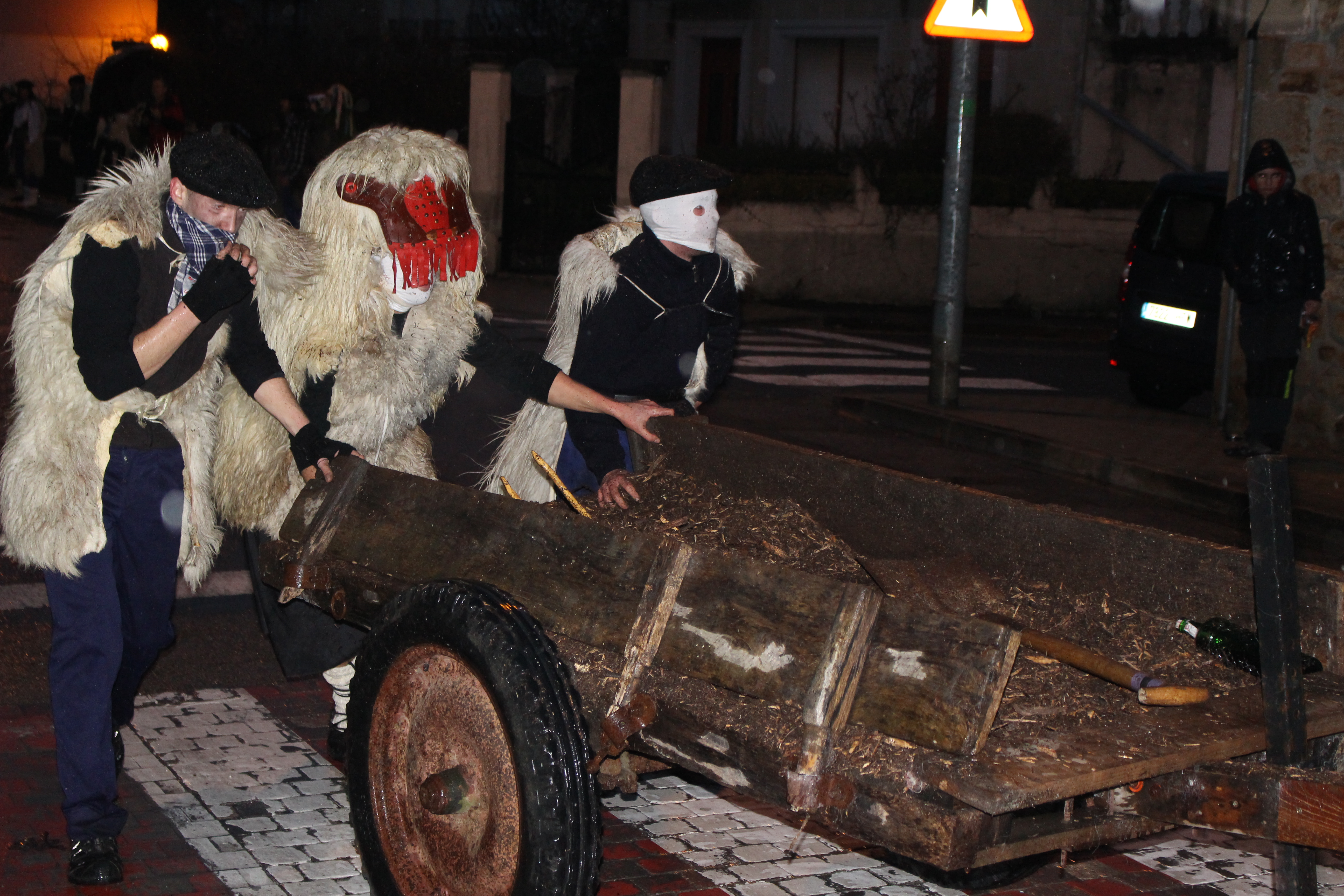 Zamar haundi bat eta bi zamar txikik lurrez beteriko gurdia bultzatzen